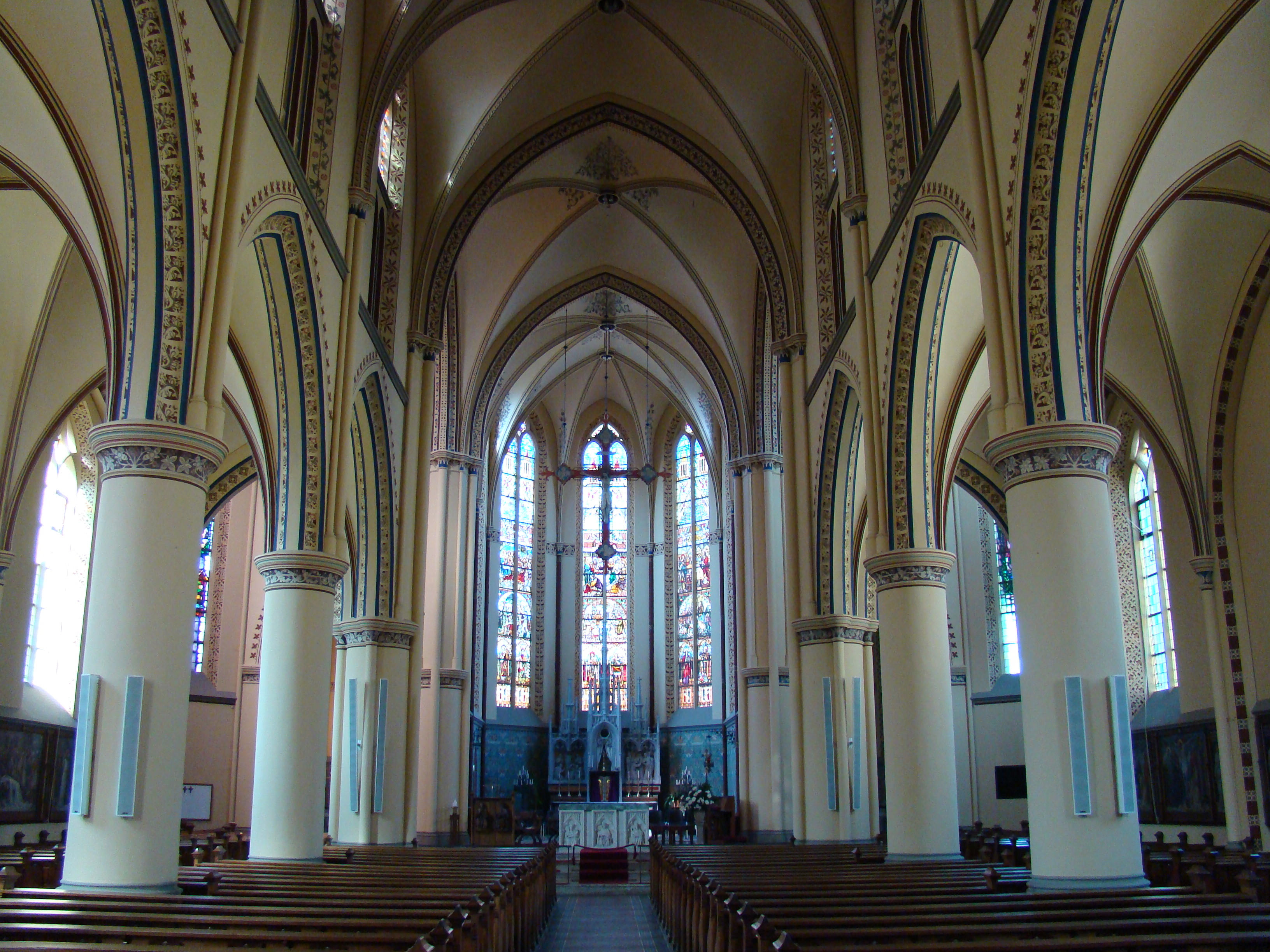 Pancratiuschurch 's Heerenberg, inside, Netherlands